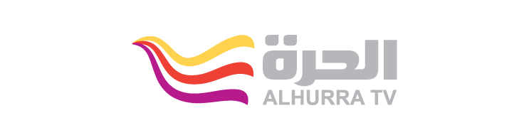 Alhurra